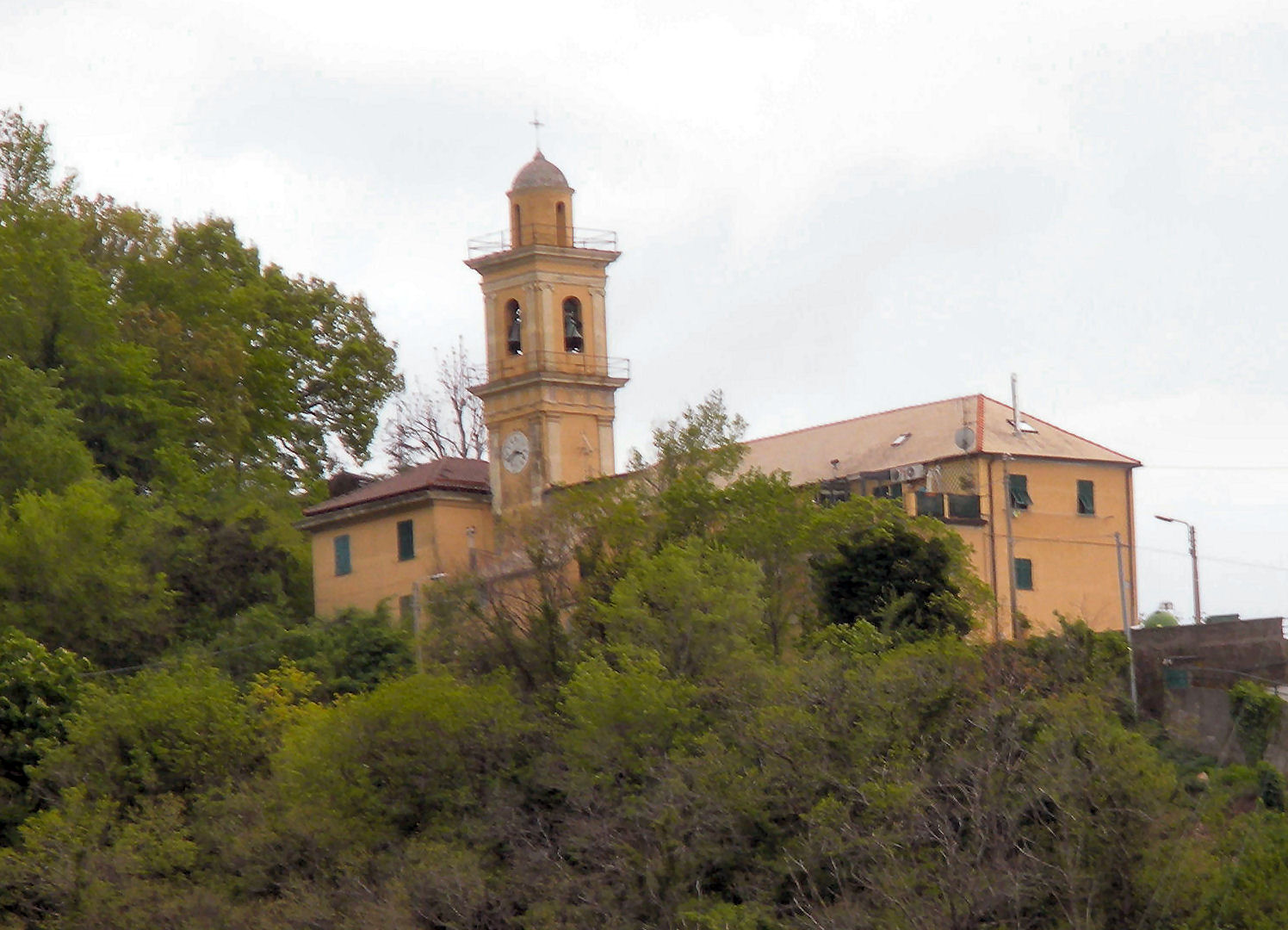 Genoa (Italy), quarter of Rivarolo, church of St. Mary at Garbo